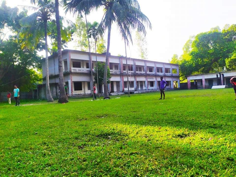 Ashraf Zindani High School